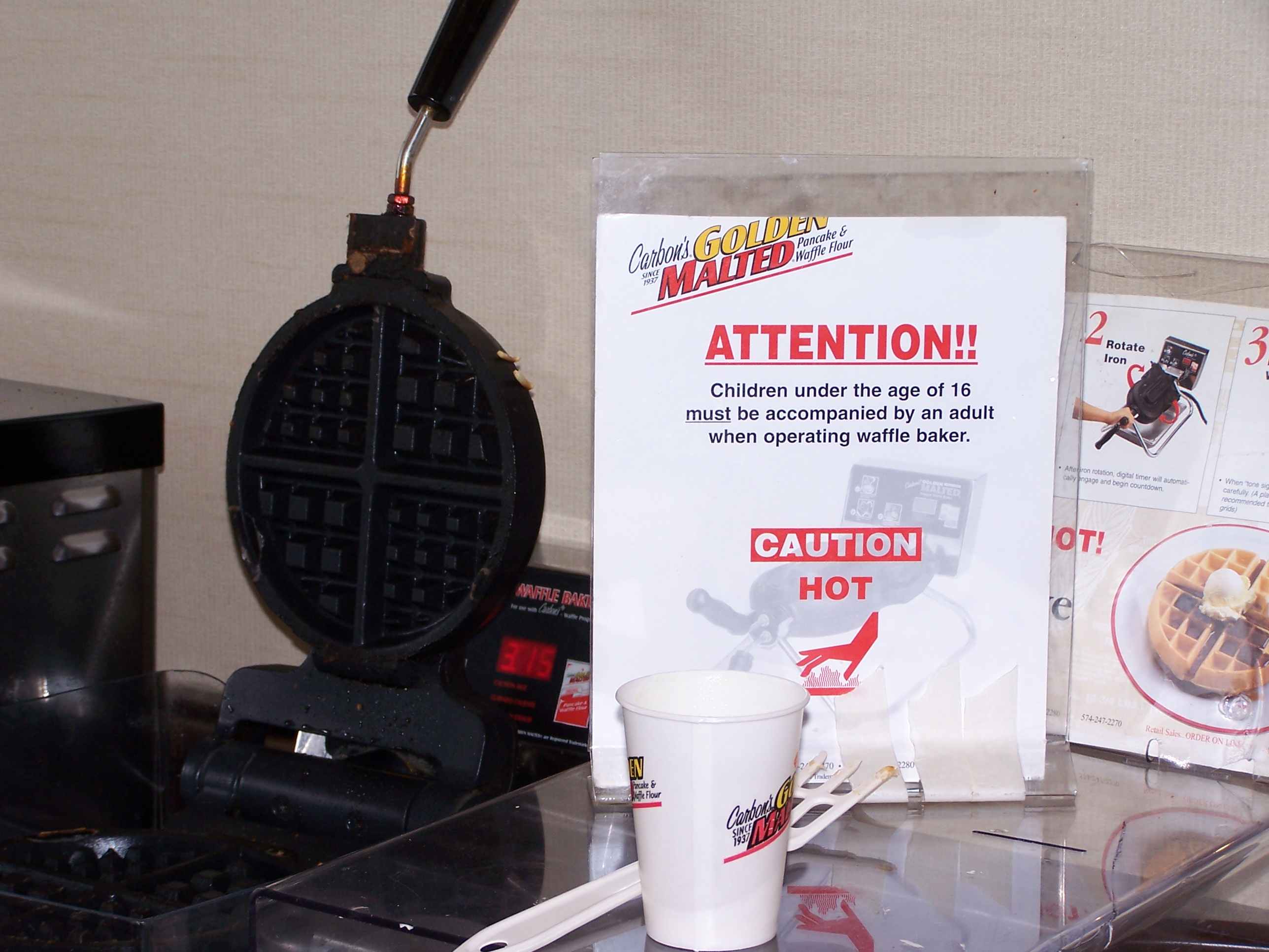 Age restriction of operating the waffle baker independently, photographed at The Grand Hotel in Sunnyvale, CA, U.S.